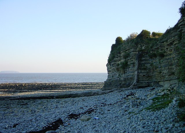 Lavernock Point and Flat Holm